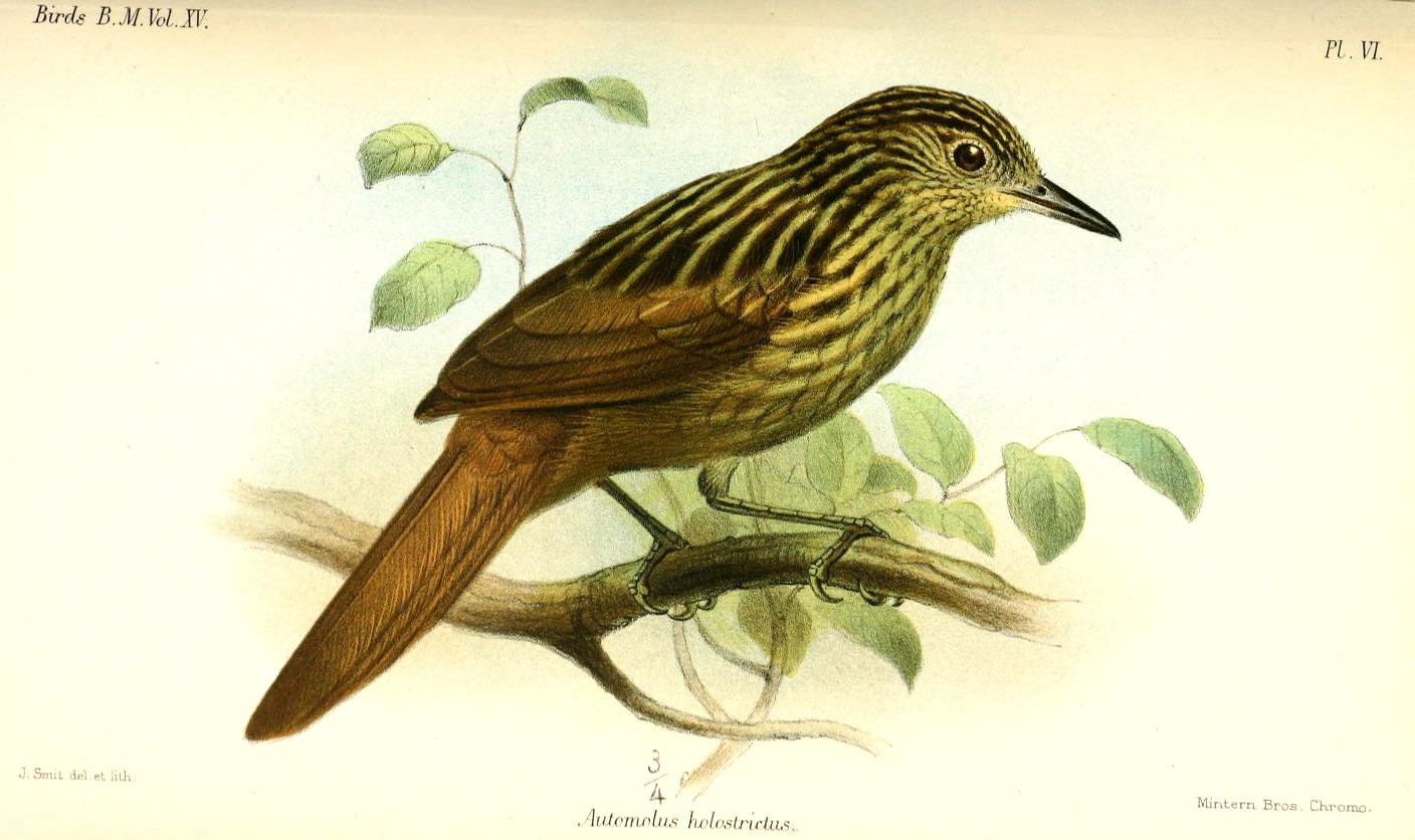 Automolus holostrictus = Thripadectes holostictus, Striped Treehunter